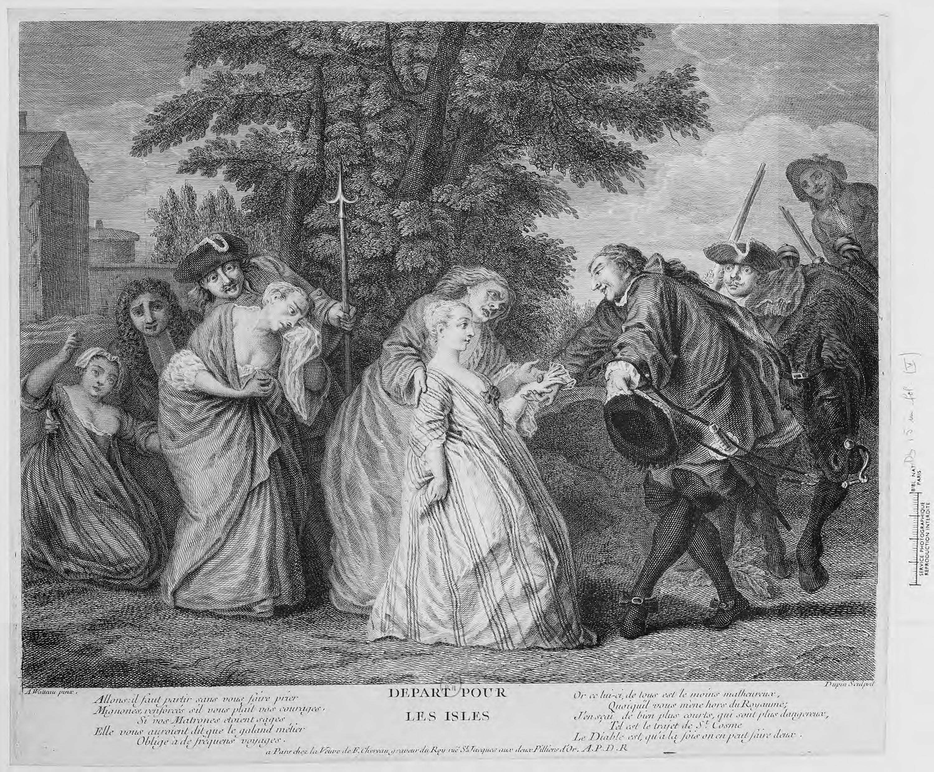 After Watteau. The departure of the comfort women for the American isles. Found at